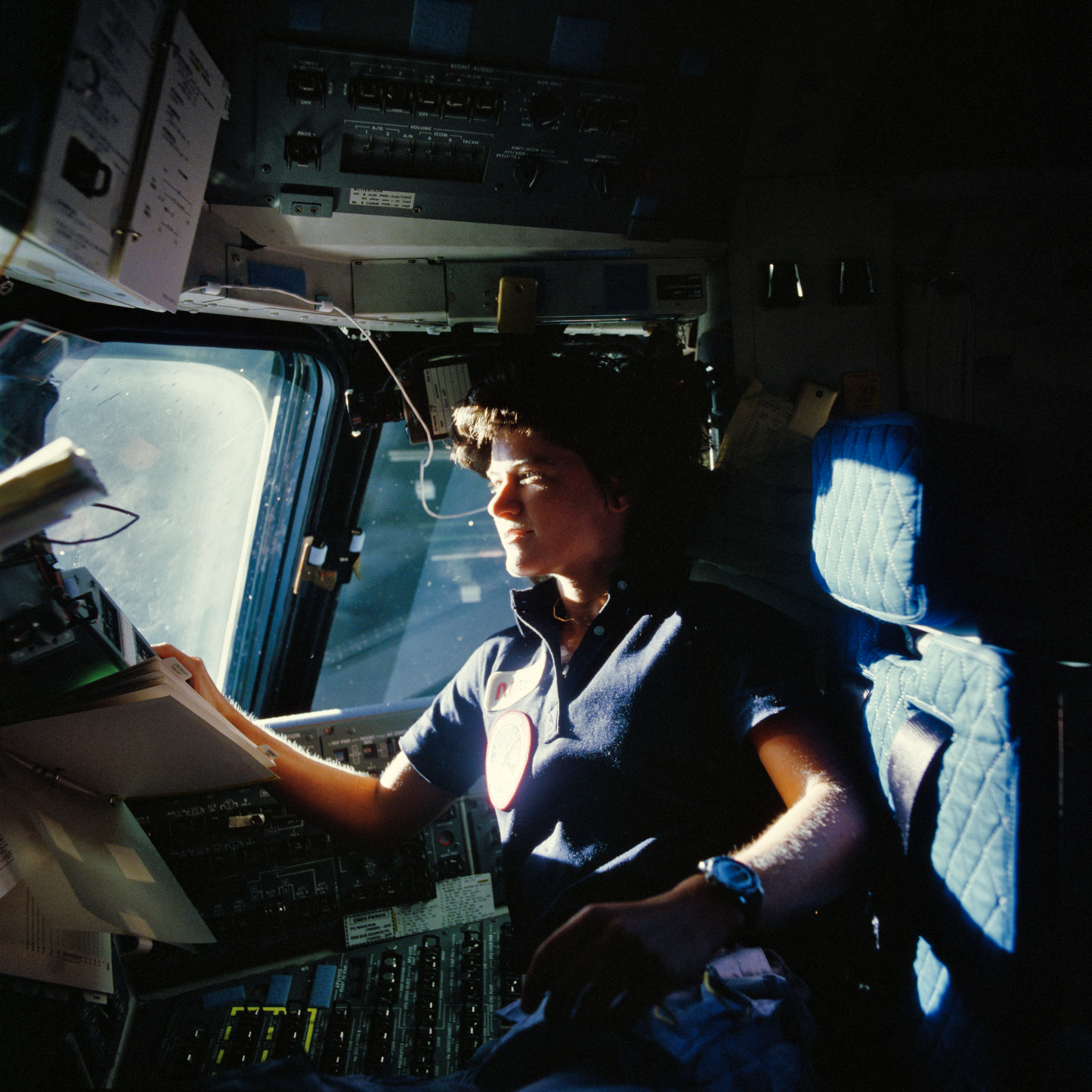 Astronaut Sally K. Ride, mission specialist on STS-7, monitors control panels from the pilot's chair on the Flight Deck. Floating in front of her is a flight procedures notebook.